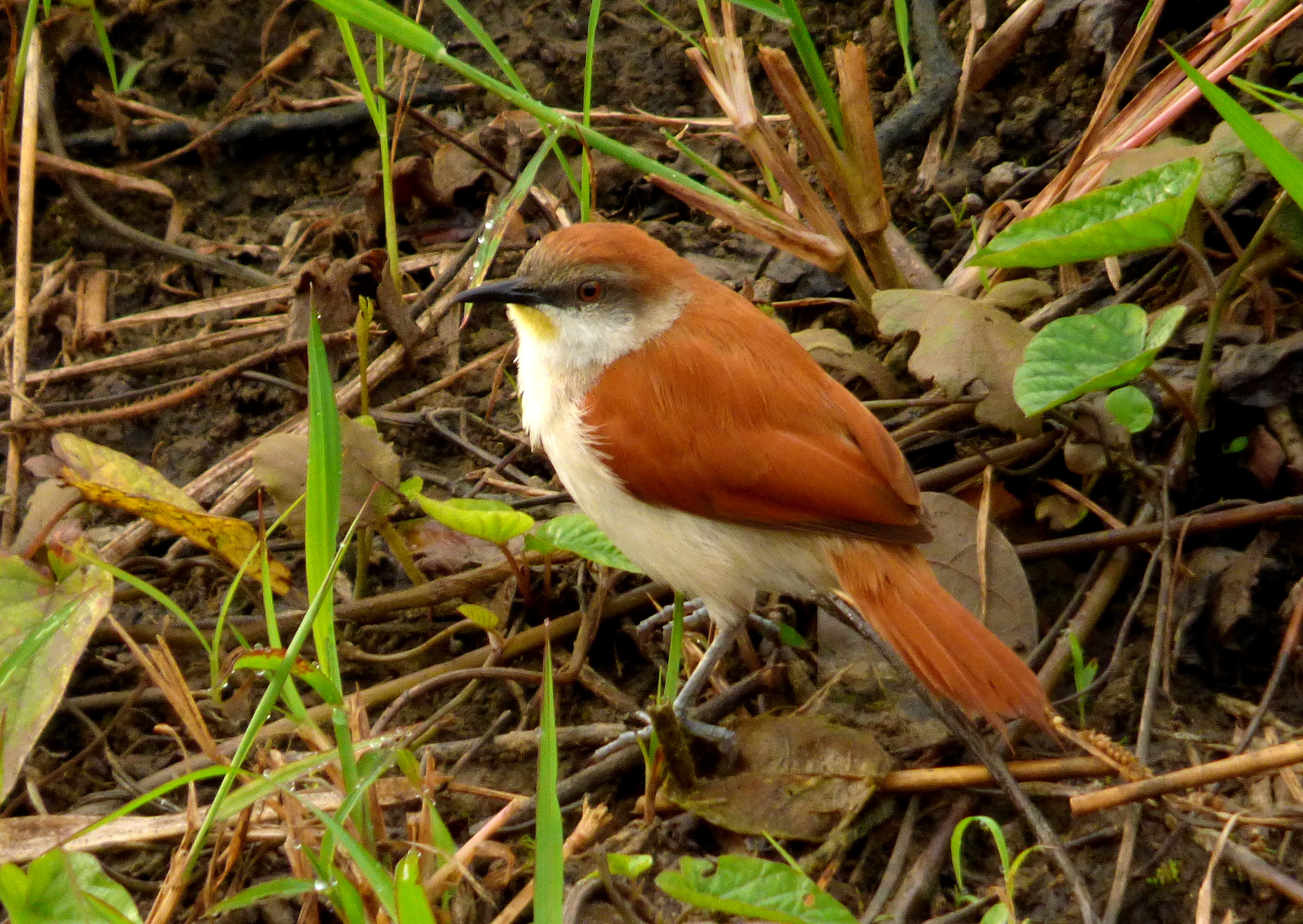 Certhiaxis cinnamomea (Rastrojero barbiamarillo) (11)